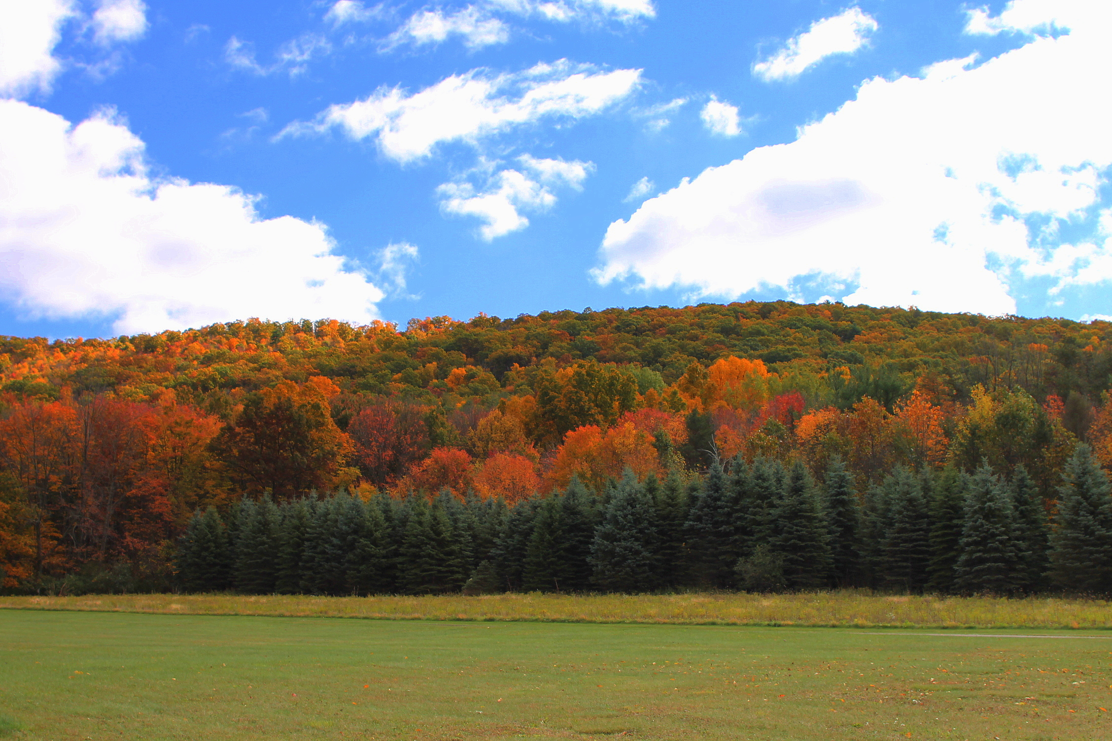 McCauley Mountain, Columbia County, Pennsylvania from the northwest